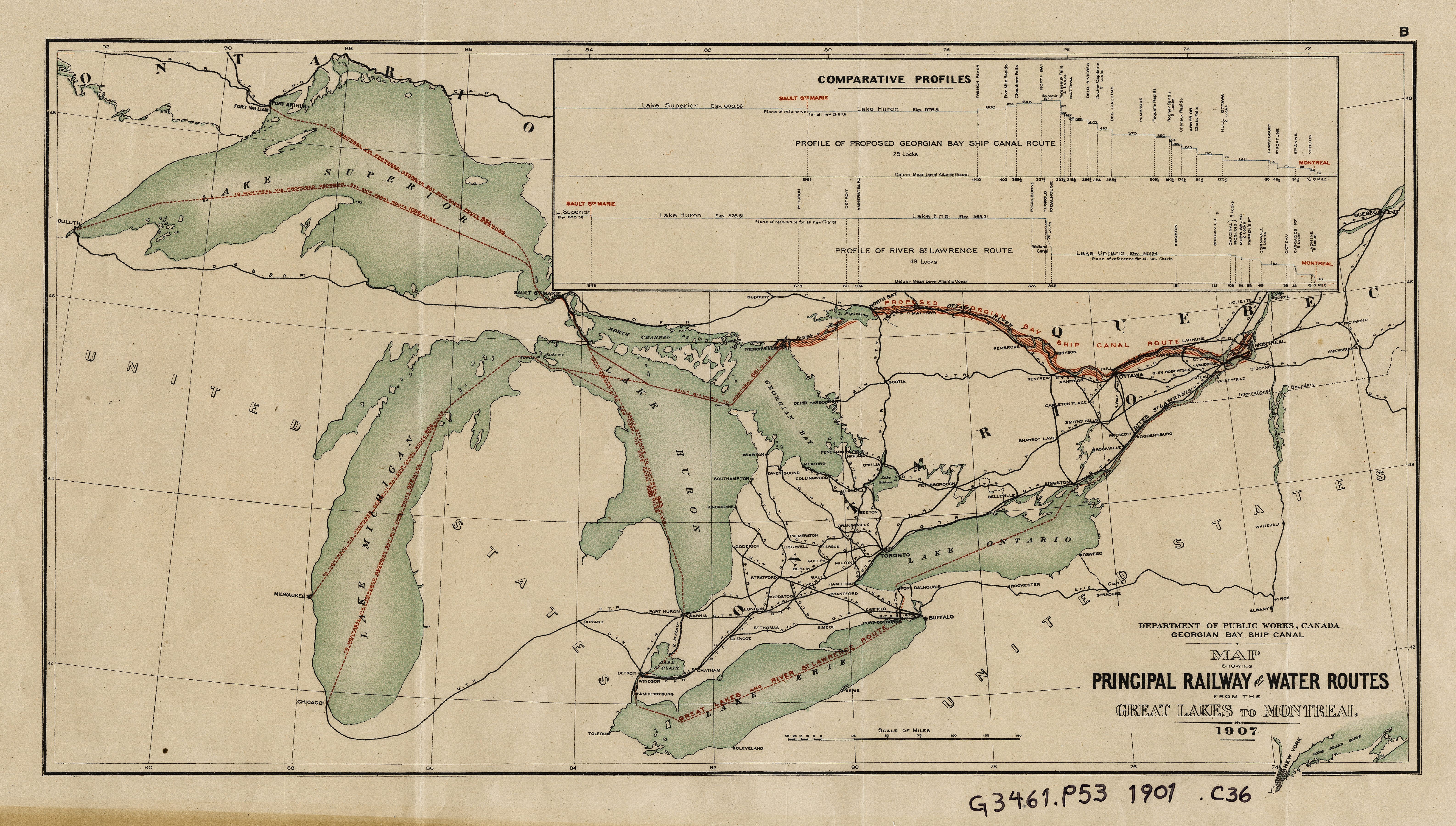 This map shows the principle railway and shipping routes around the Great Lakes region around the turn of the 20th century. It illustrates the route of the Montreal, Ottawa and Georgian Bay Canal, or Georgian Bay Ship Canal, and the distance that would be cut for anyone shipping cargo to the Montreal area. The map also shows the Ottawa and Perry Sound railway running parallel to the route to the south of the Canal, and the Canadian Pacific mainline, just visible, running just north and south of the canal route.